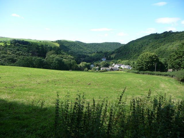 Aberhosan village viewed from near Ty-gwyn farm, near to Aberhosan, Powys, Great Britain. The small village is nestled in its sheltered valley.